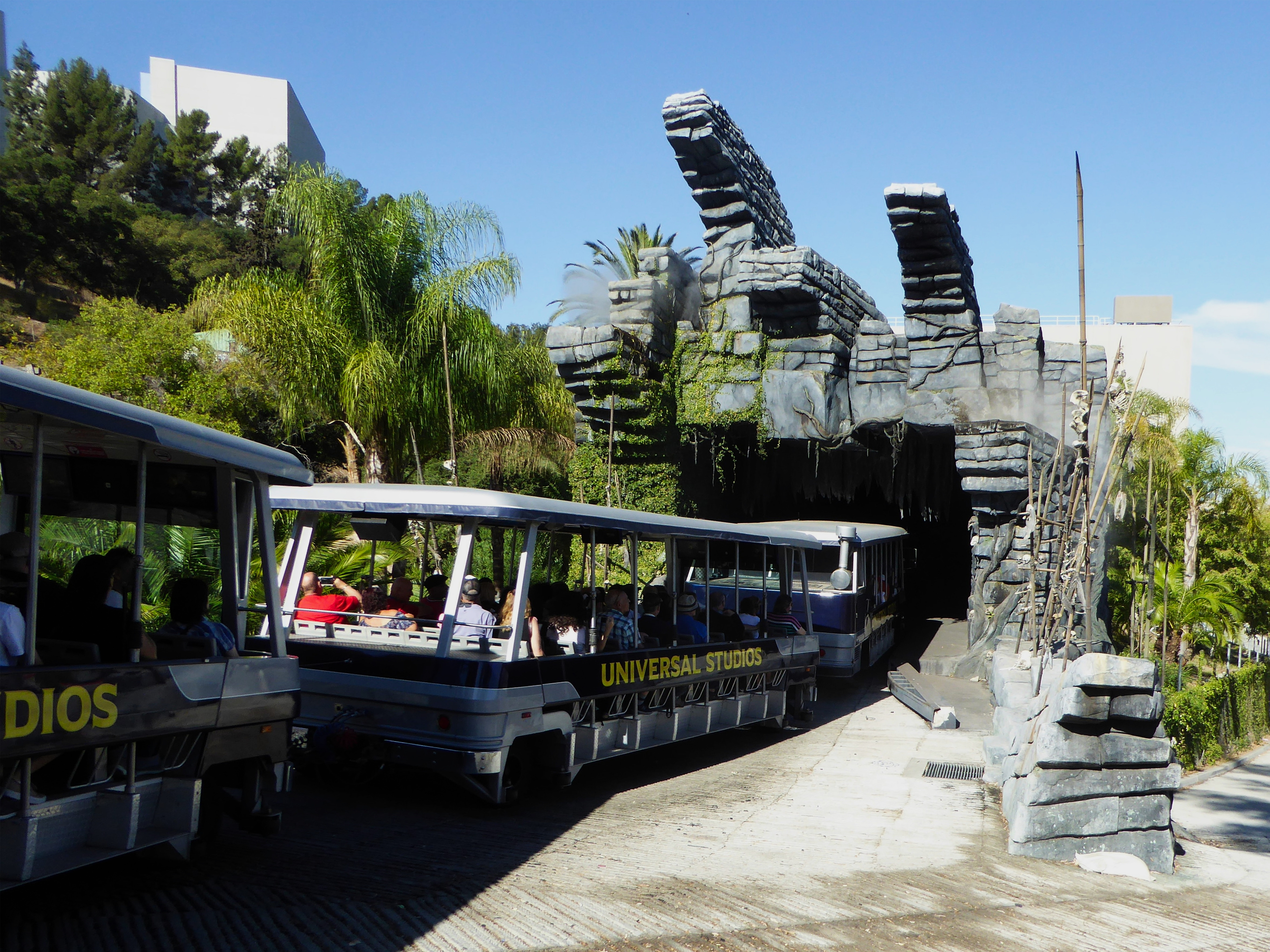 The 45 minutes Studio Tour ride uses tram cars at Los Angeles, Universal Studios Hollywood